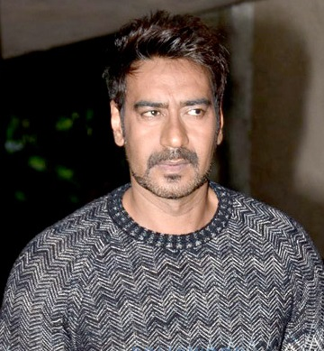 Ajay Devgn snapped at 'Action Jackson' photoshoot